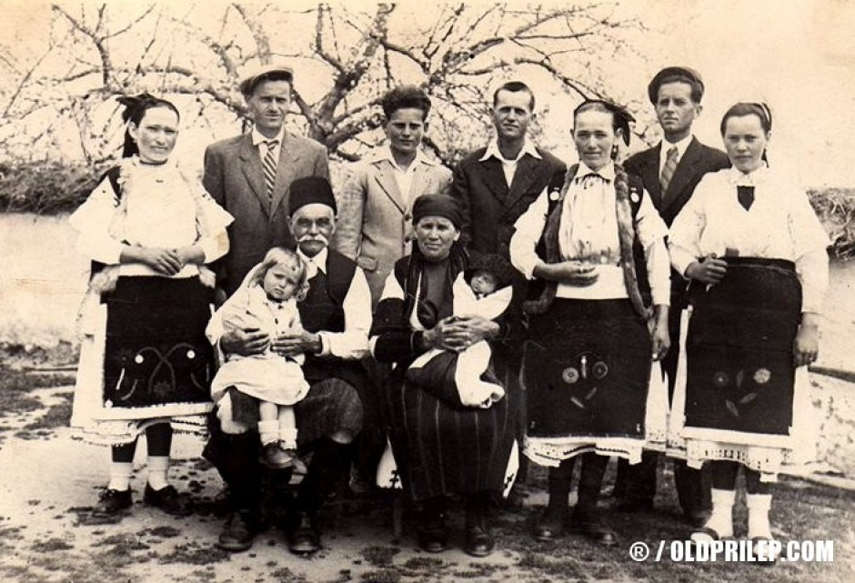 Jordan Koviloski's family in 1953